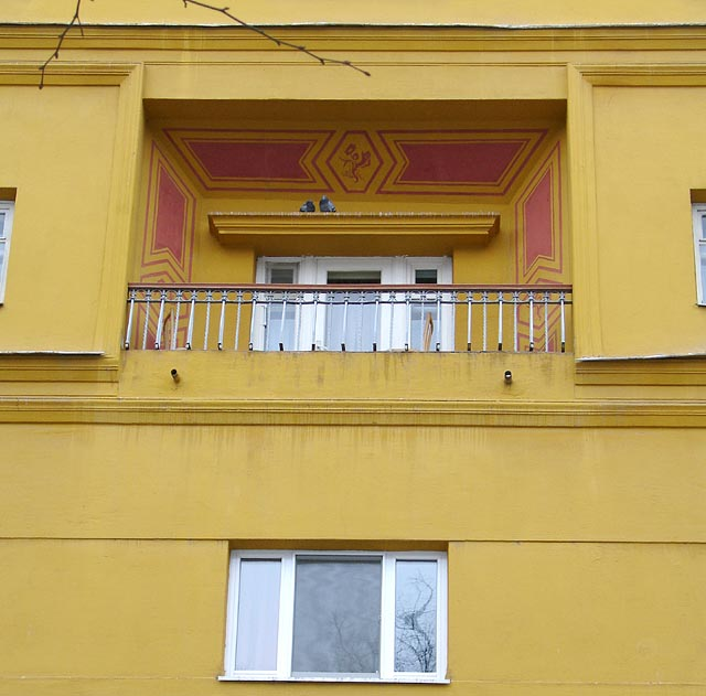 Stalinist luxury: 5-meter window spacing at Patriarchy Ponds